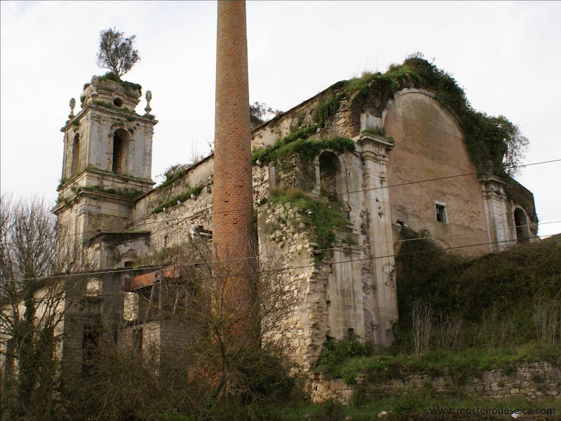 Mosteiro de Seiça 02